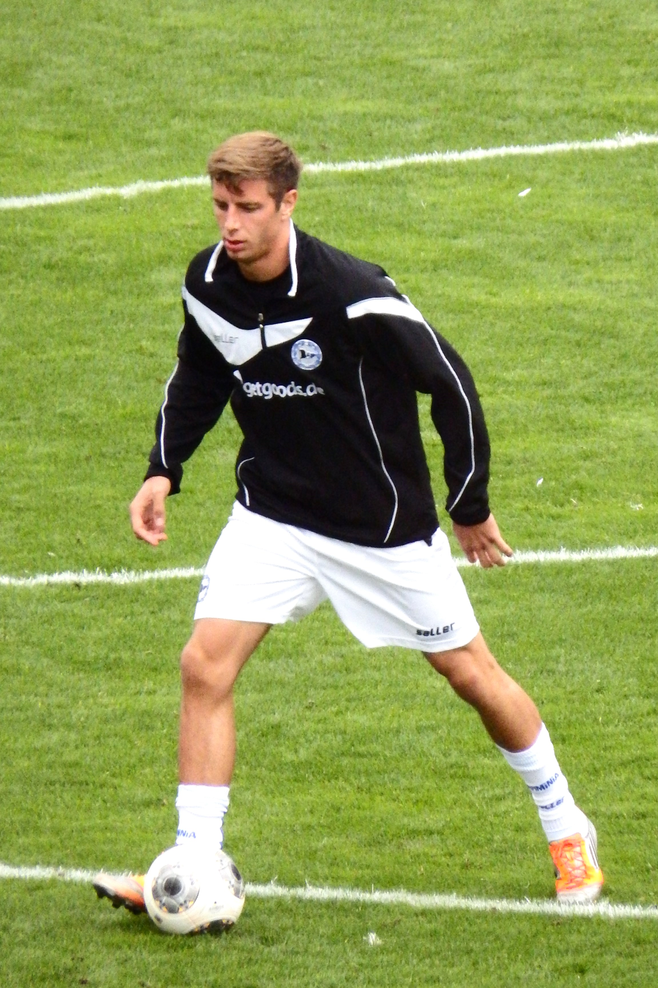 Johannes Rahn as Player from Arminia Bielefeld